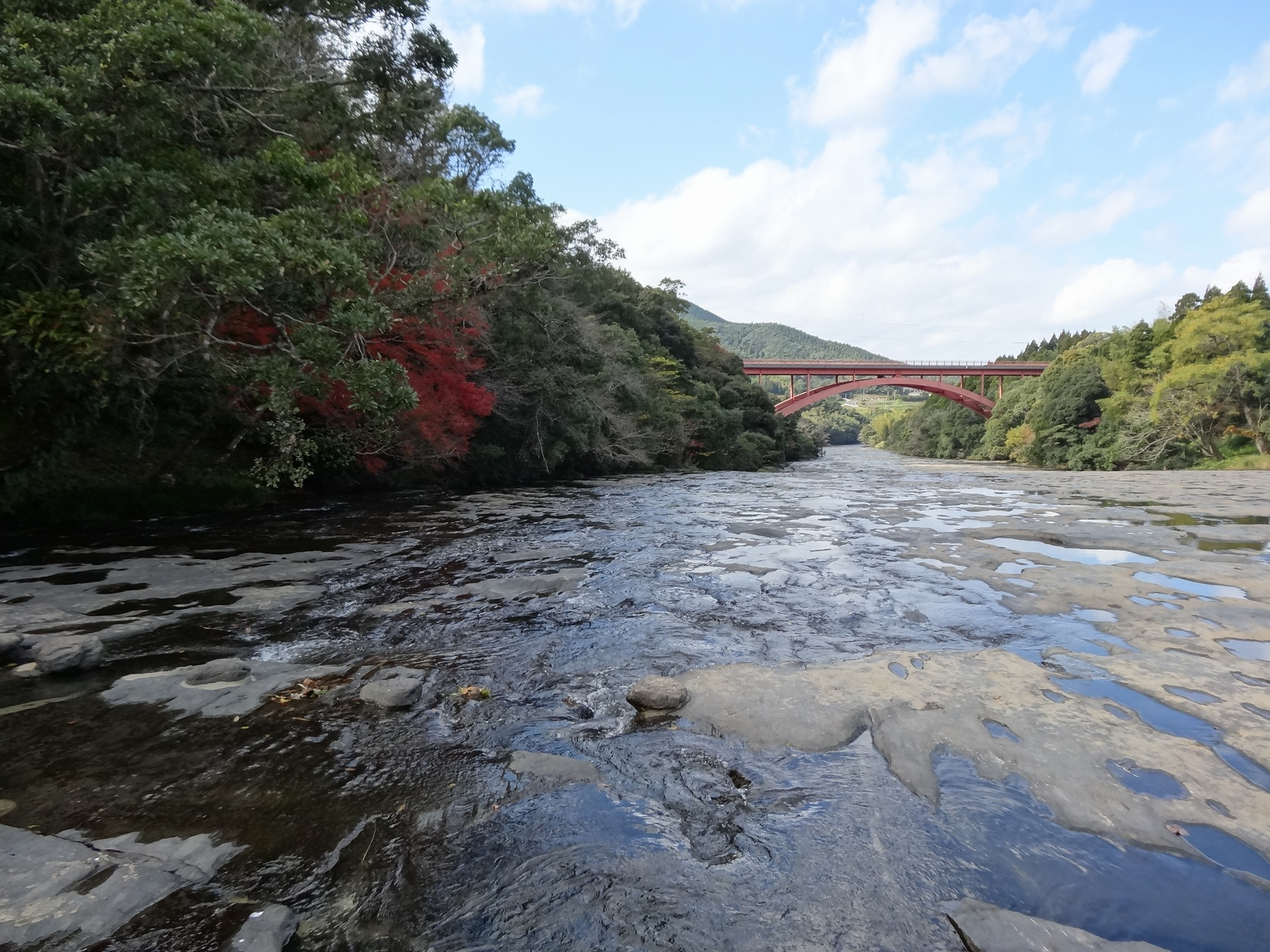 Hanaze on Autumn (Tashiro, Kinko Town, Kagoshima Prefecture, Japan)